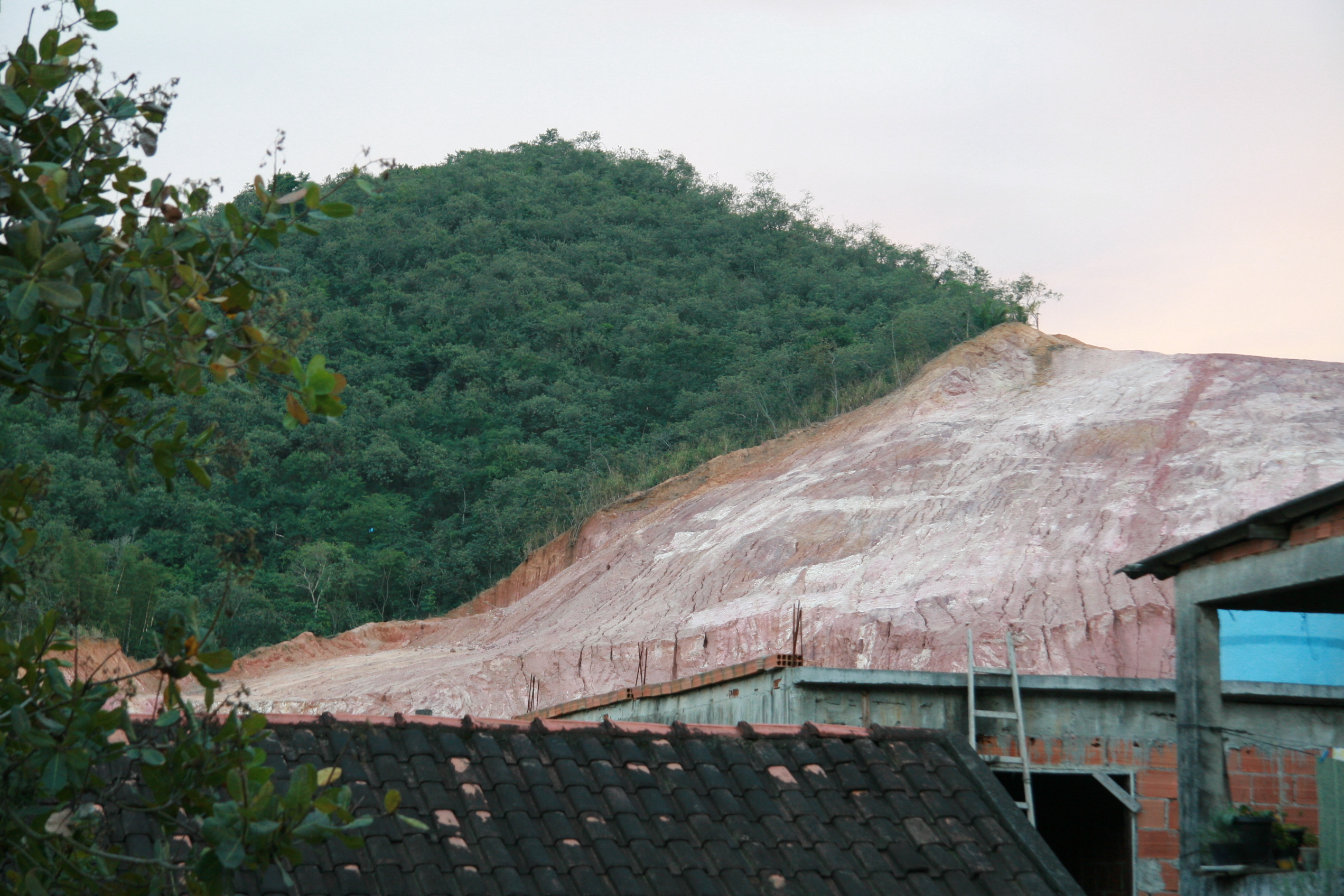 Deforestation in Atlantic Forest Rio de Janeiro - Brazil. This hill was deforestated in order to use its clay in civil construction in Barra da Tijuca. Many trucks with the city public service logo worked on the hill destruction.